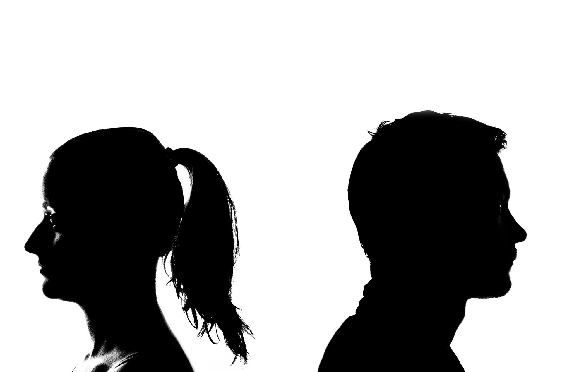 Male and female silhouettes facing away from each other